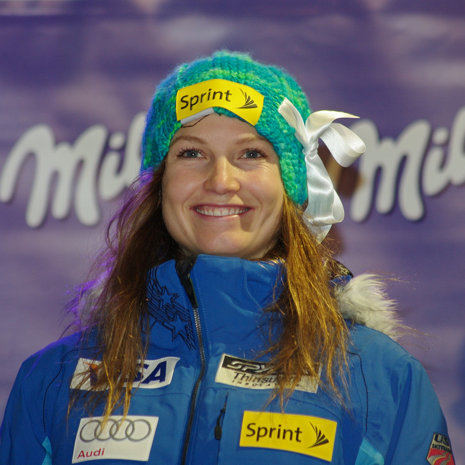 American alpine skier Julia Mancuso at the bib draw for the Downhill in Altenmarkt-Zauchensee (Austria) on 8 January 2011.